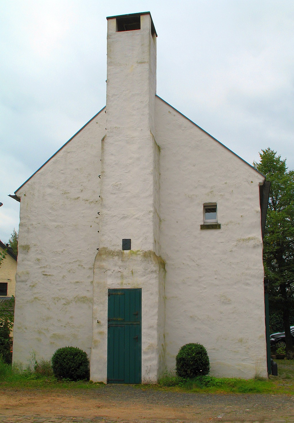 Former Tithe barn in medieval village Kronenburg near Dahlem, Germany This is a photograph of an architectural monument.